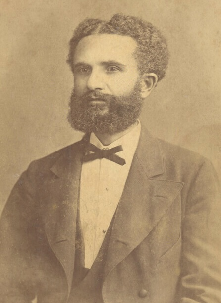 A photograph of Abdyl Frashëri